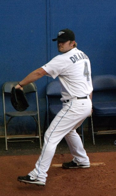 Kyle Drabek of the Toronto Blue Jays